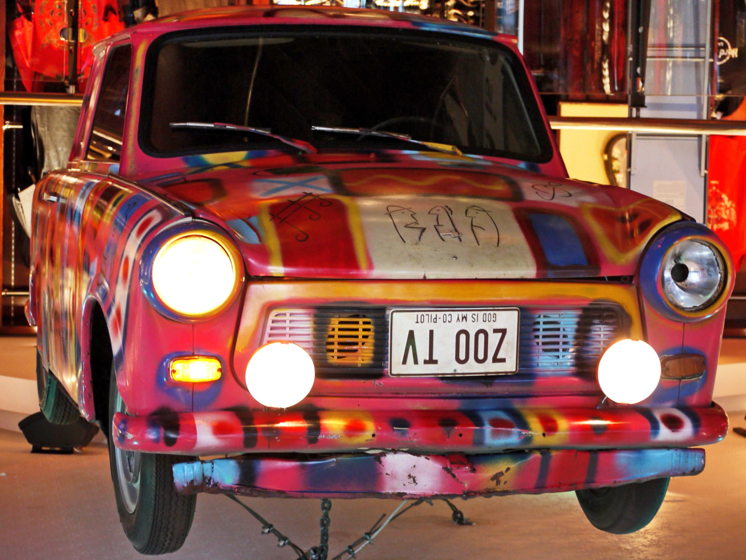 Hard Rock Cafe - Trabant used during U2's Zoo TV Tour. The car is actually attached to the ceiling upside-down...